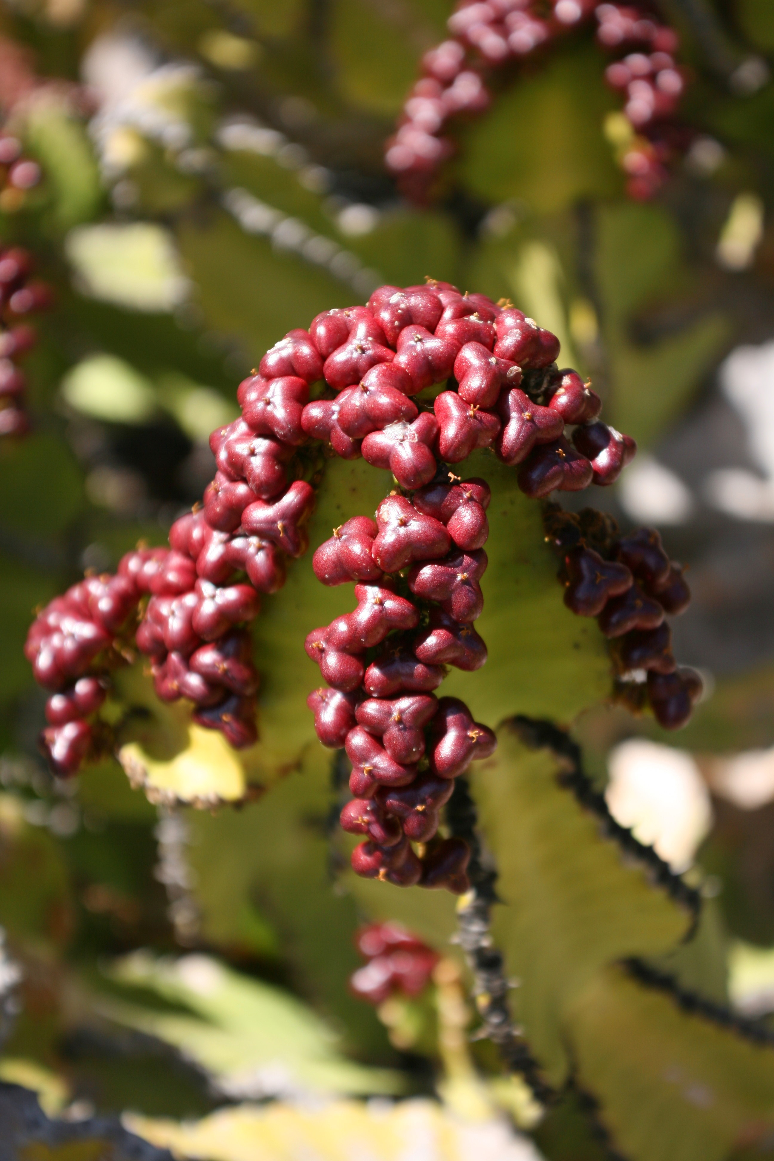 Euphorbia cooperi grown in the Botanical Garden “Jardin de Cactus” in Guatiza, Teguise, Lanzarote, Canary Islands